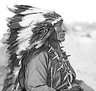 Photograph of Iron Tail, an Oglala Sioux chief who was one of the models for the Indian Head Nickel, a United States coin valued at five cents that was minted from 1913 through 1938 using a design by James Earle Fraser )